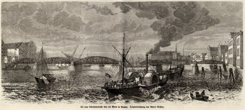 Railroad bridge across Weser river in Bremen, built in 1866/1867